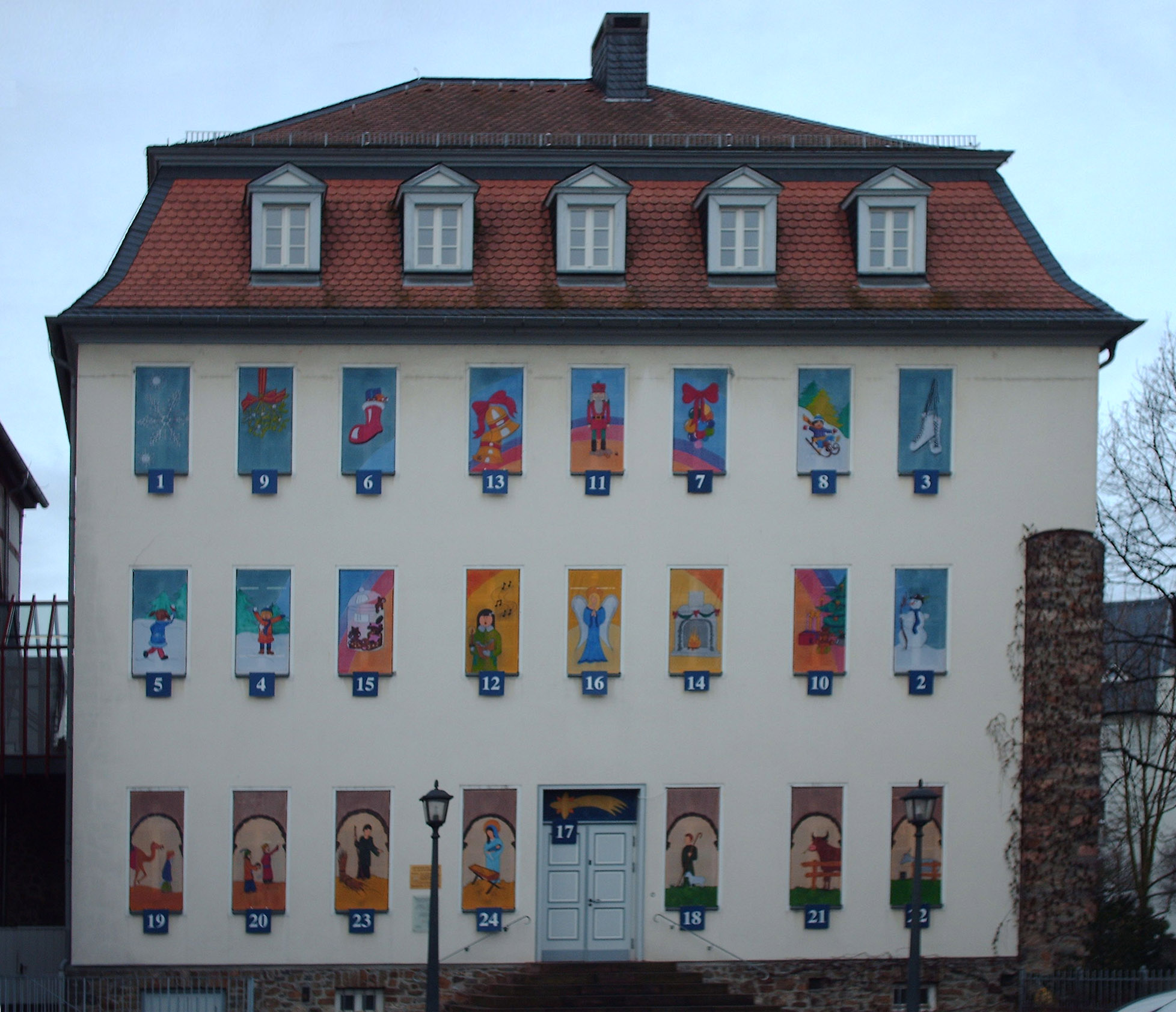 Wallenfels’sches Haus, Gießen, Germany check usage